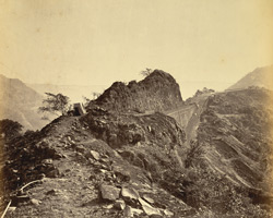 Photograph of the Bhor Ghat reversing station from the 'Lee-Warner Collection: 'Bombay Presidency. William Lee Warner C.S.' taken by an unknown photographer in the 1870s. The Bhor Ghat reversing station is situated at a height of 2027 feet on the Great Peninsula railway line from Bombay to Pune in Maharashtra. This route required passing over the western Ghats. In addition to the reversing station, there were 25 tunnels and 22 bridges. On the 25 January 1869, there was an accident at Bhor Ghat when a mail train was unable to brake.